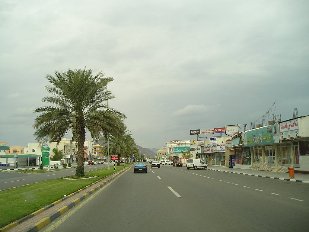 Khor Fakkan, Sharjah.